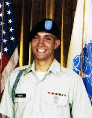 Photo released by the U.S. Army shows Pfc. Jason Abdo. [1]